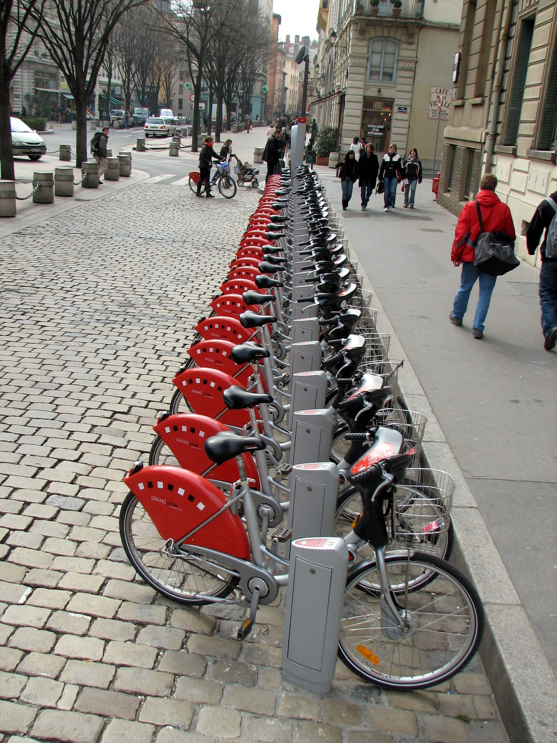 A velo station for rental bicycles in Lyon.